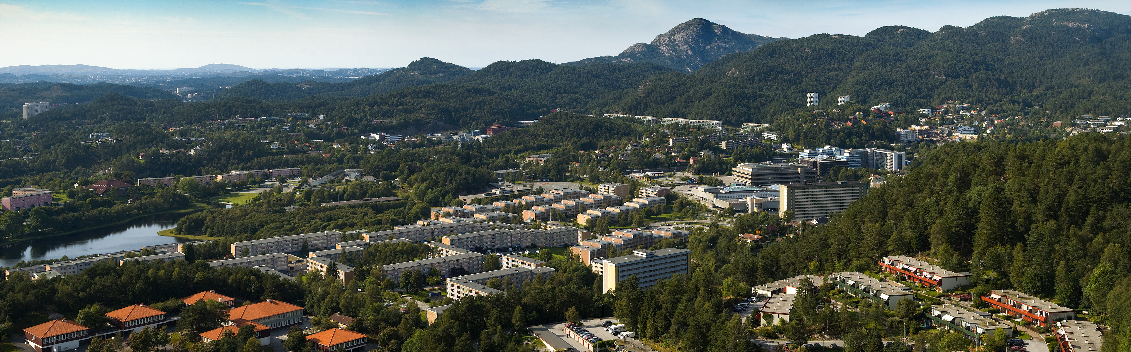 Panorama of the central parts of the Fyllingsdalen valley in the city of Bergen, Norway. The mountain visible in the background to the center-right in the picture is Lyderhorn, and to the right of it is the lower parts of the Damsgårdsfjellet mountain massif.